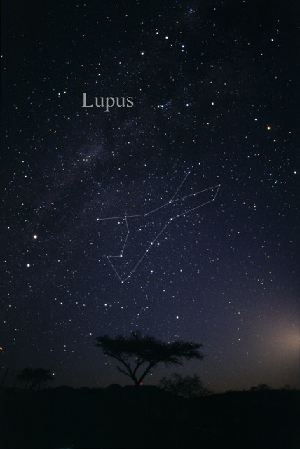 Photo of the constellation Lupus, the Wolf